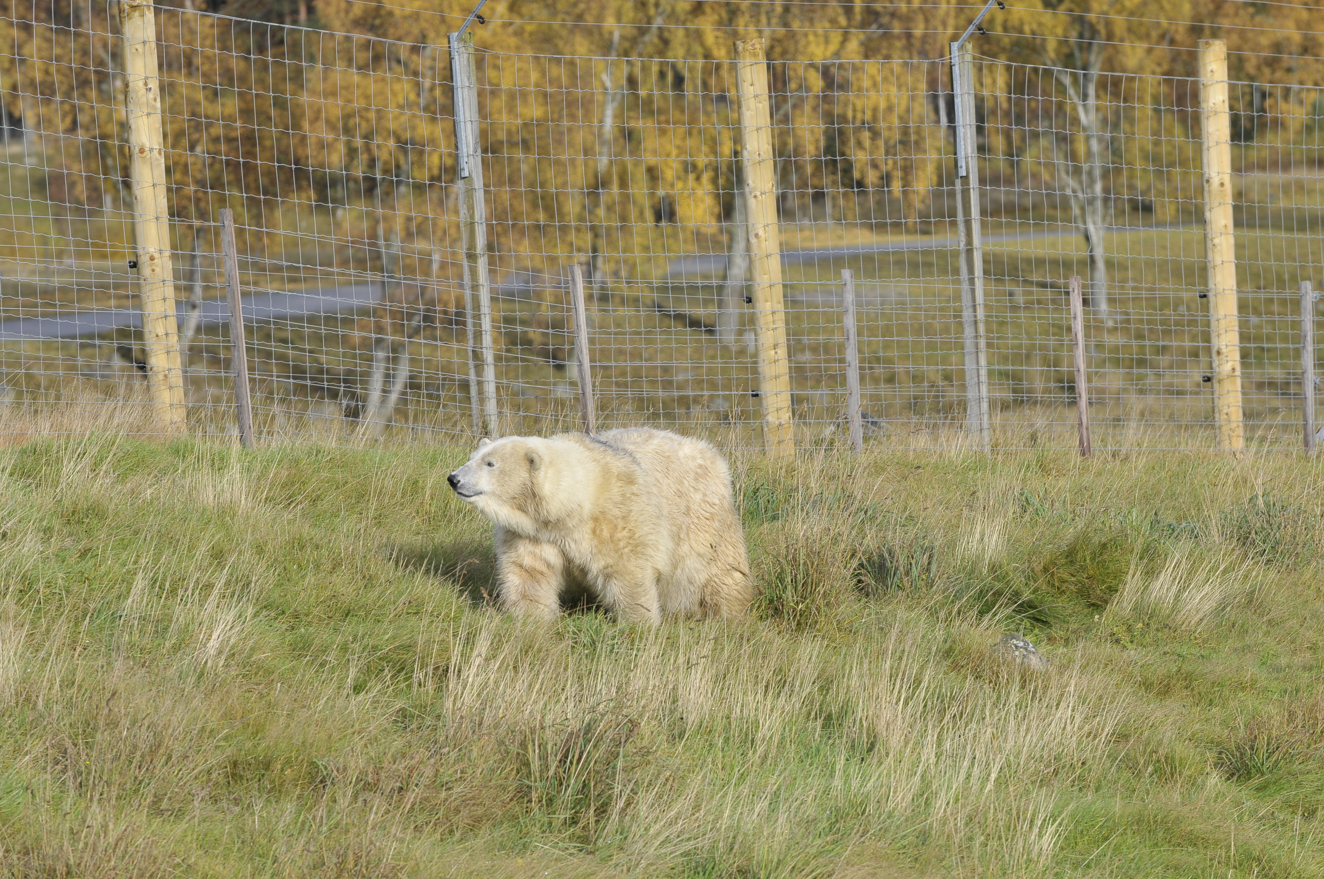 Mercedes the Polar bear on her 4th day at the Highland Wildlife Park Kincraig Scotland. Image by Aaron Sneddon, camera Nikon D300 with 70-300 2.8 VR lens.